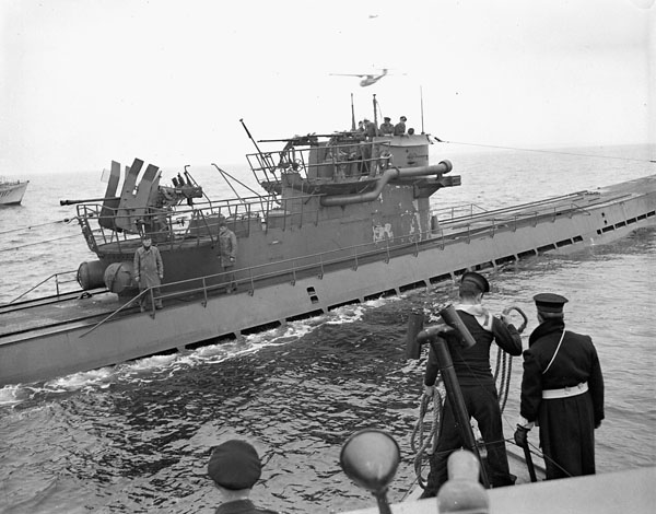 German submarine U-889 on 13 May 1945 surrendering to the Royal Canadian Navy